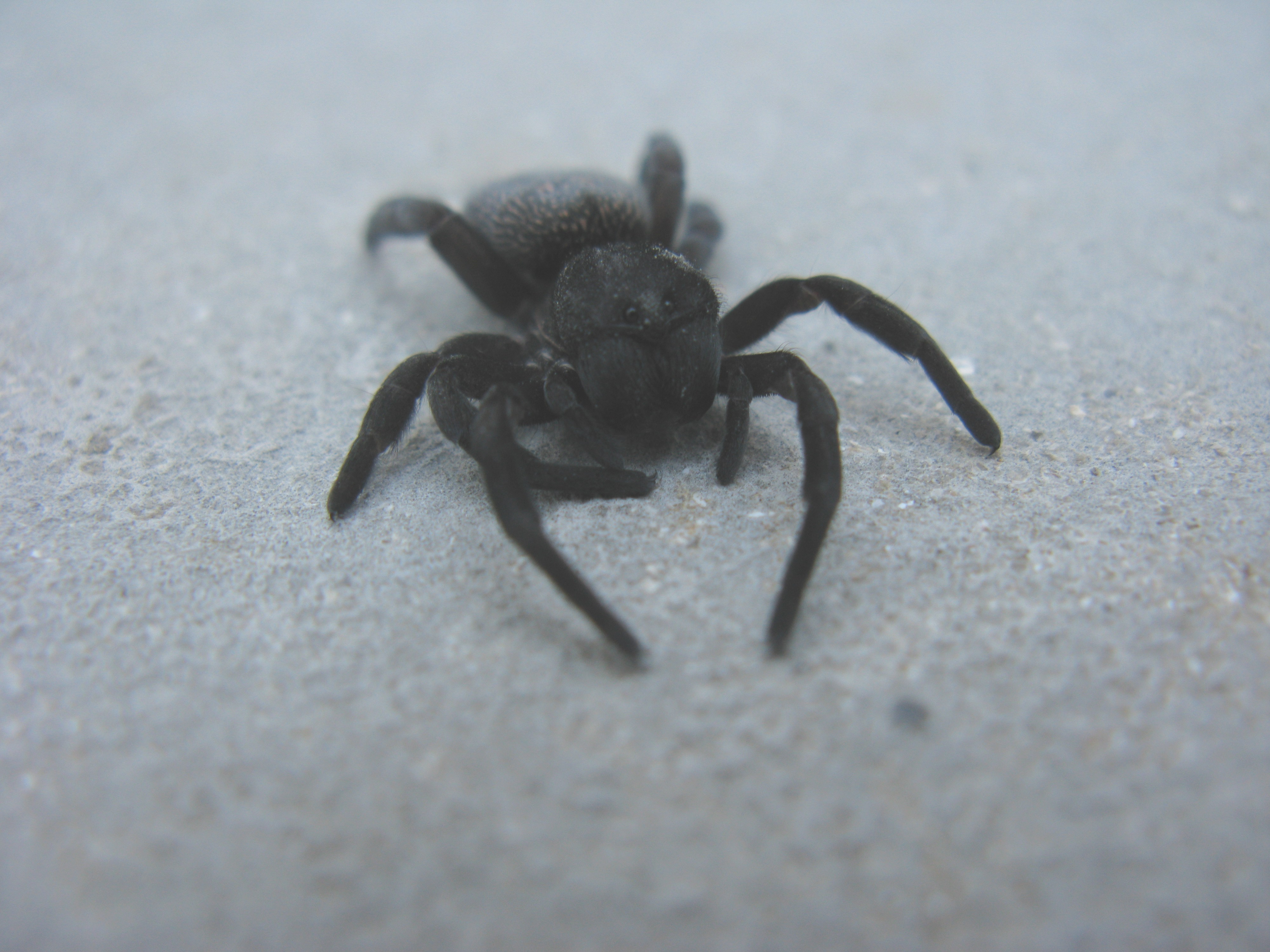 Female "Velvet Spider". Family Eresidae, probable Genus Dresserus, or just possibly Gandanameno, which are common in Southern Africa.